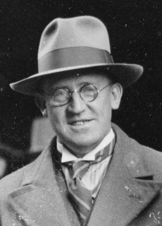 Delegates to the 1933 ALP Federal Conference in Sydney: John Madden (Tasmania) Bill Colbourne (New South Wales) Gordon Brown (Queensland) Arthur Calwell (Victoria) William Forgan Smith (Queensland)